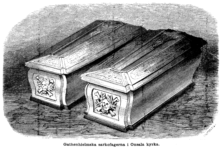 The Gathenheilm Sarcophagi in Onsala Church